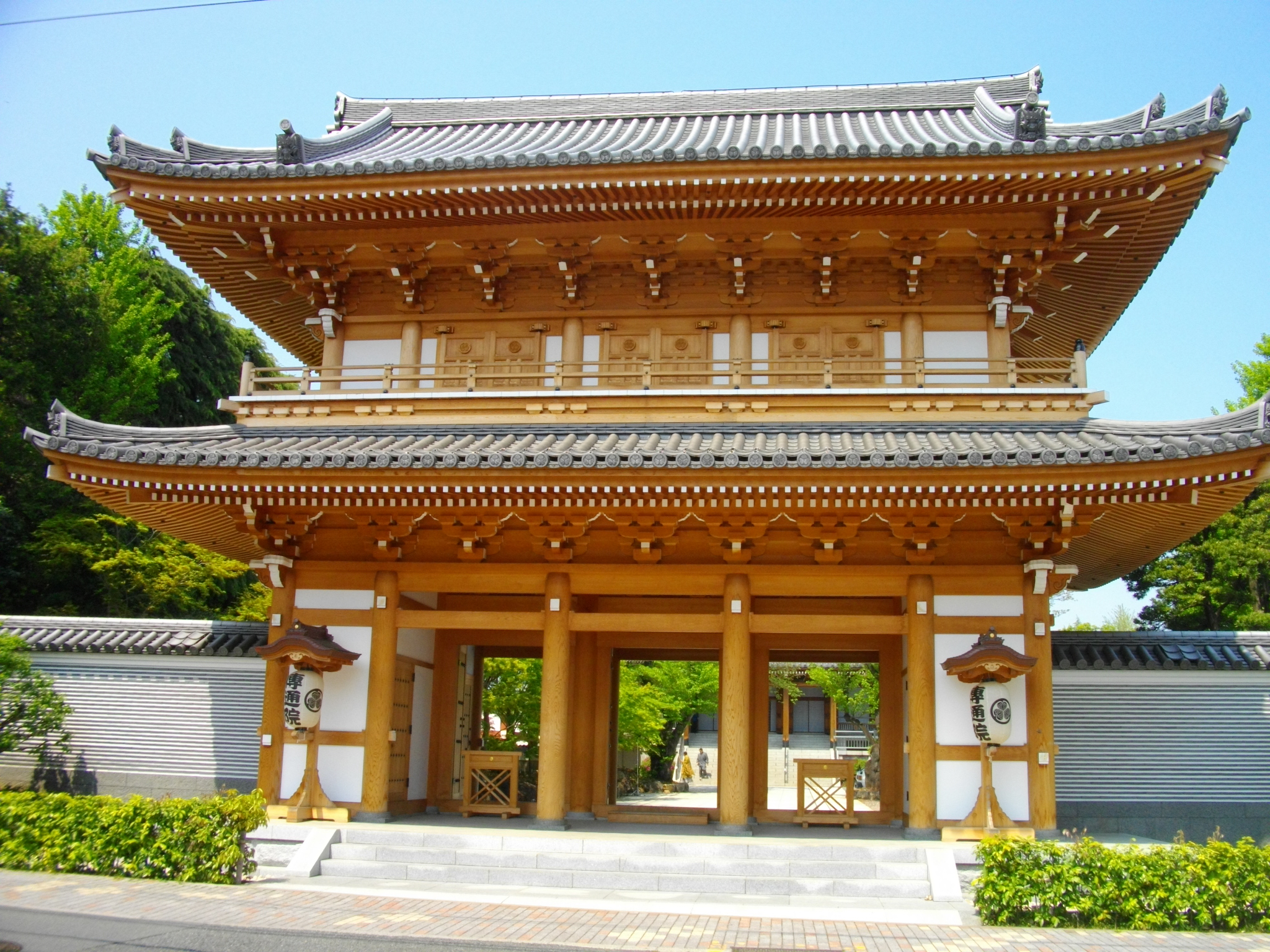 Denzuin Sanmon